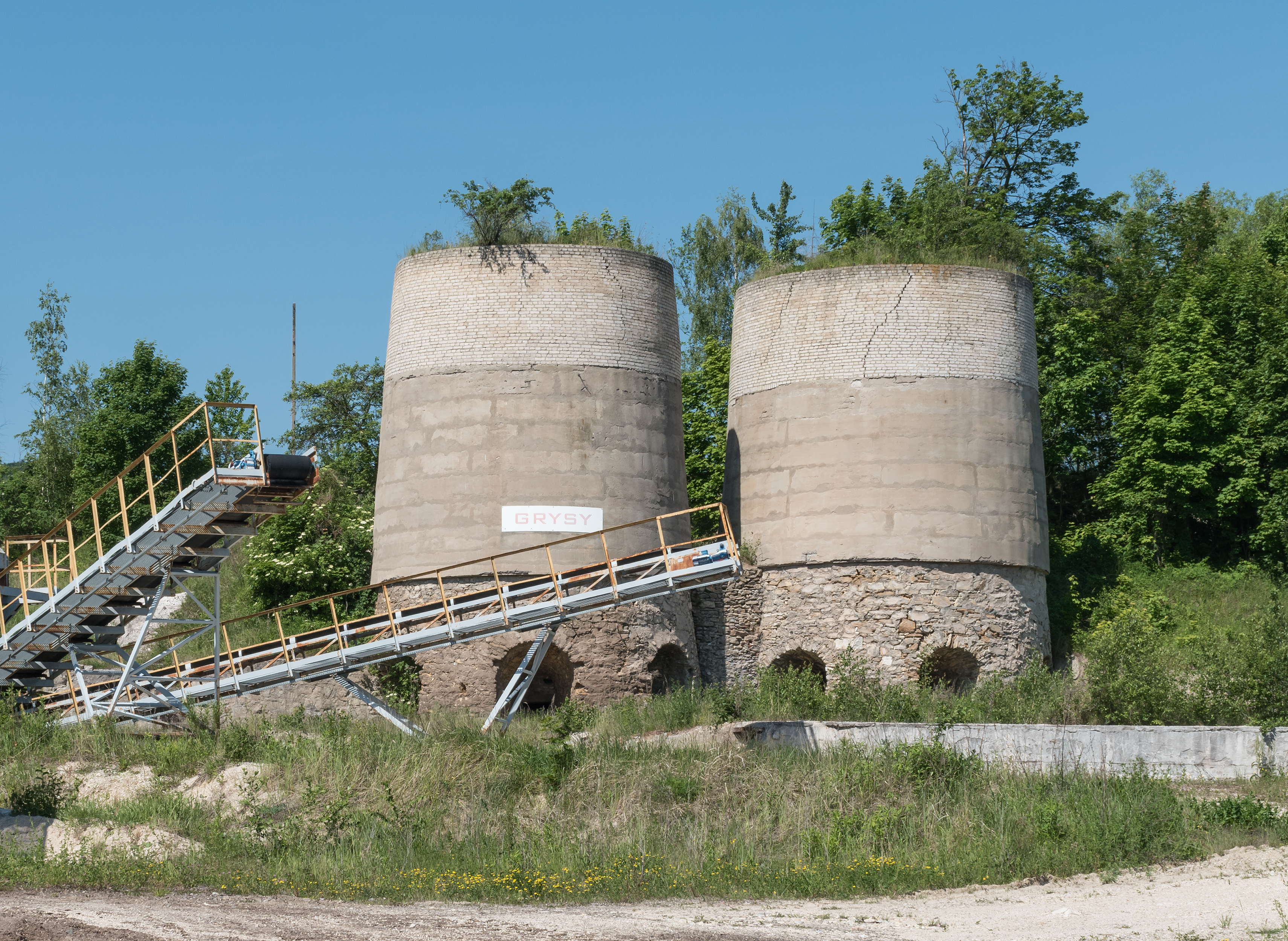 Dolmin limestone plant in Żelazno